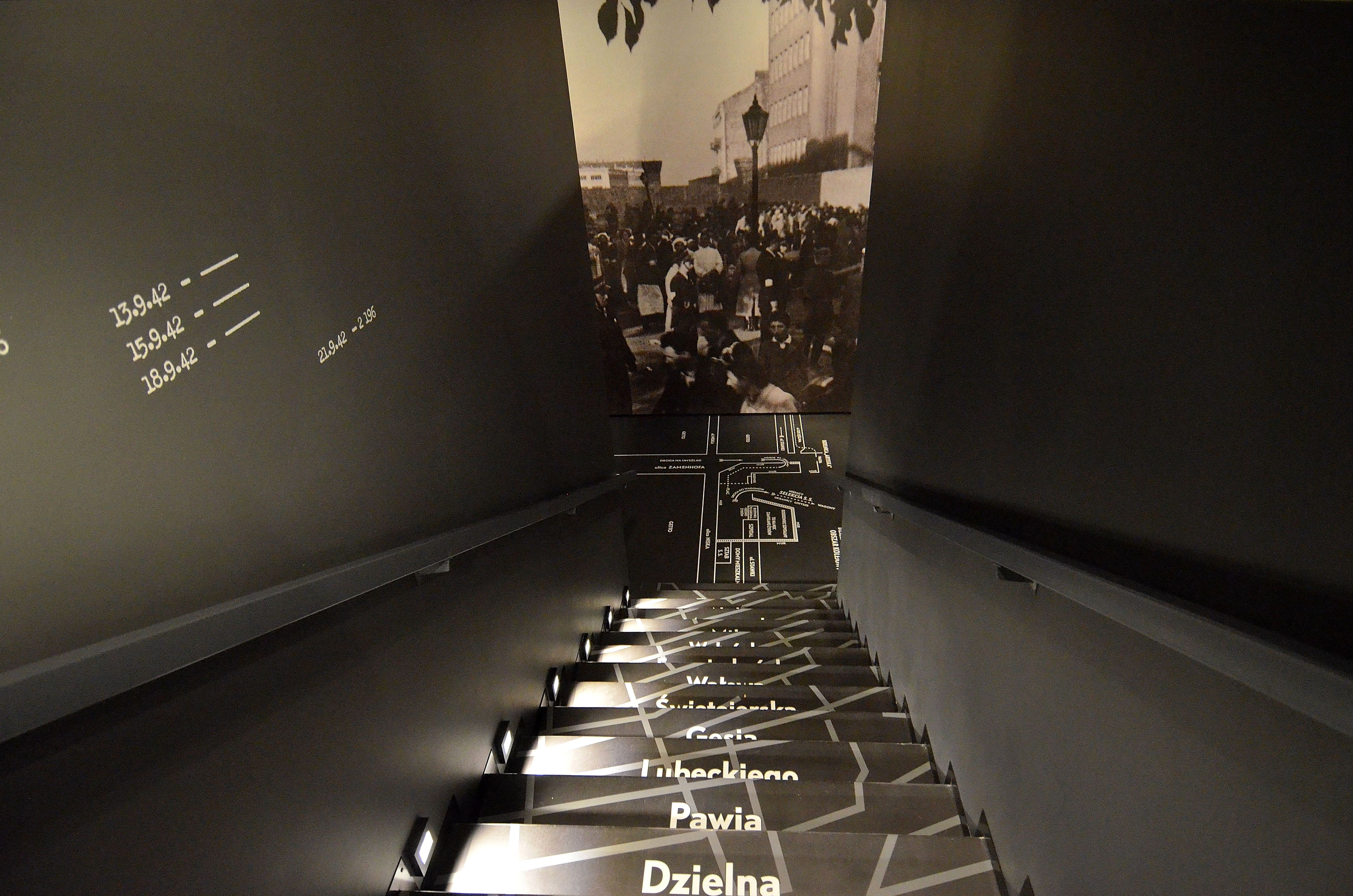 Core exhibition of the Museum of the History of Polish Jews in Warsaw. Umschlagplatz at the "Holocaust" gallery